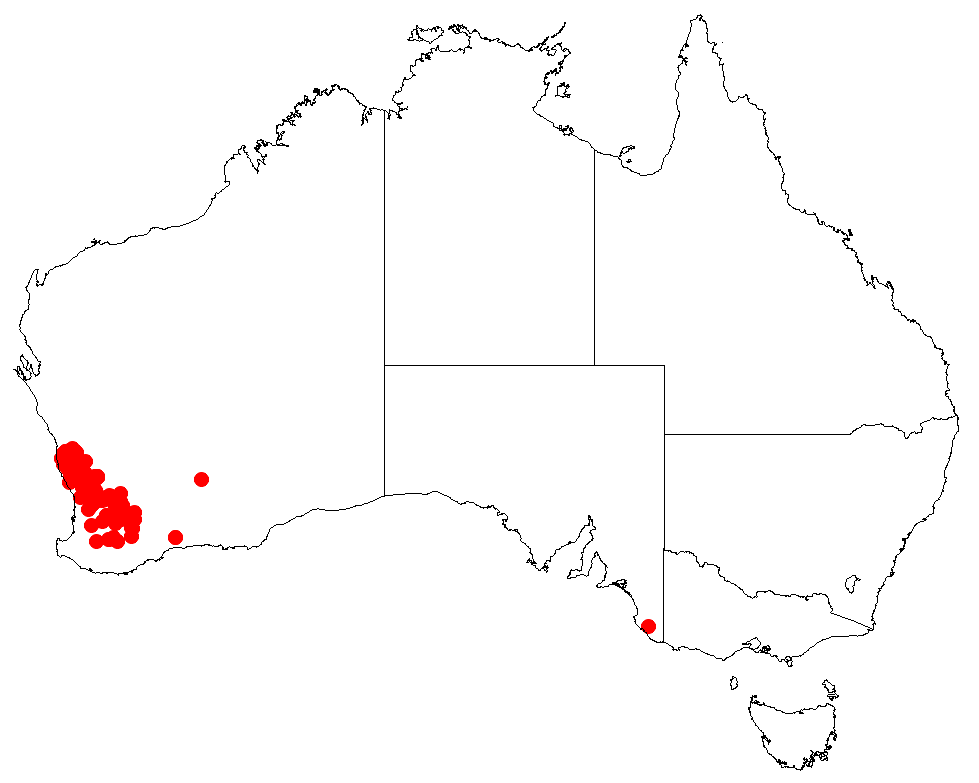 Hakea gilbertii Occurrence data downloaded from Australasian Virtual Herbarium on 22 November 2018 using